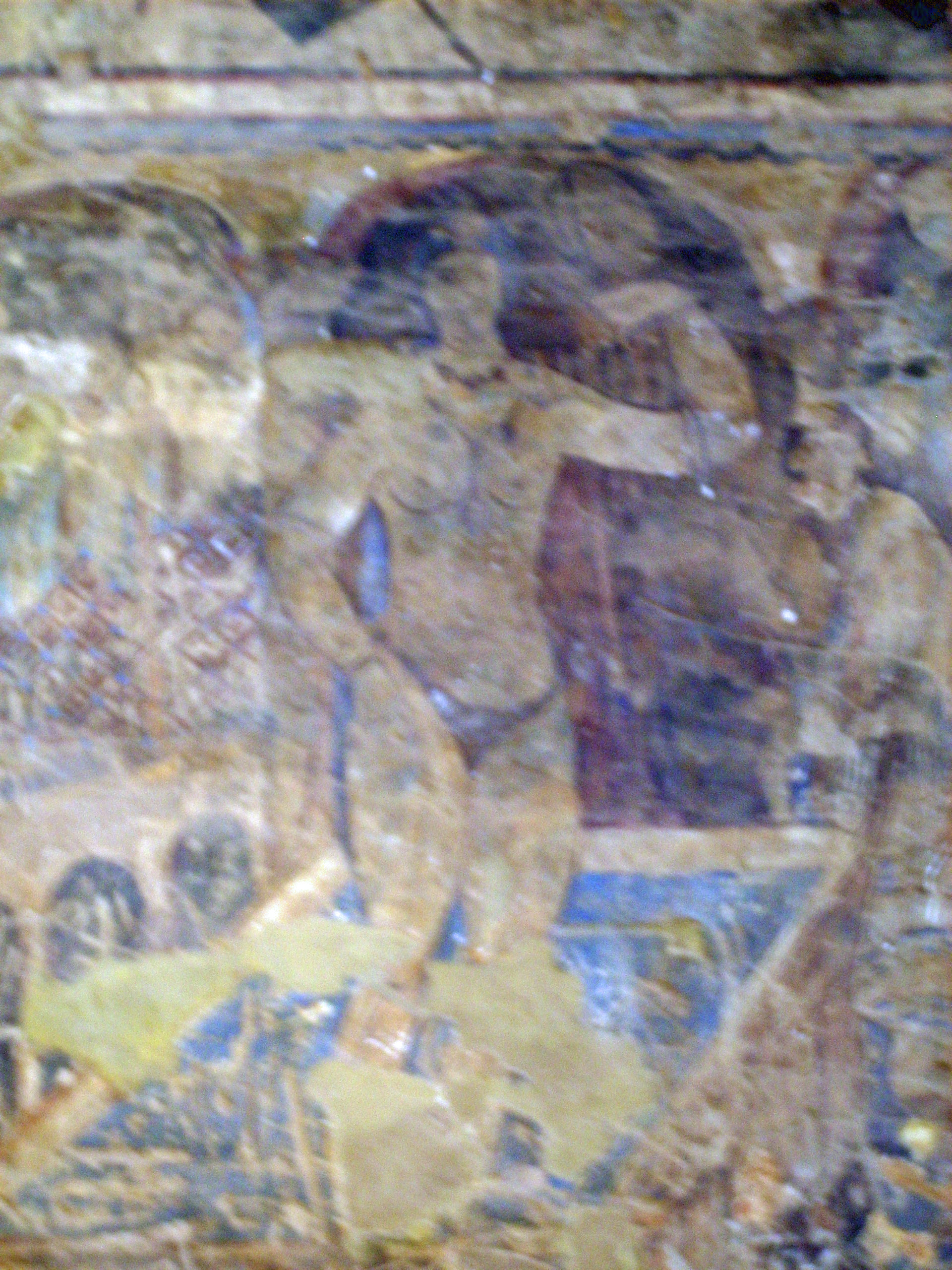 Fresco of bathing woman. Qasr Amra hammam-bathouse — 8th-century Umayyad art in Jordan.